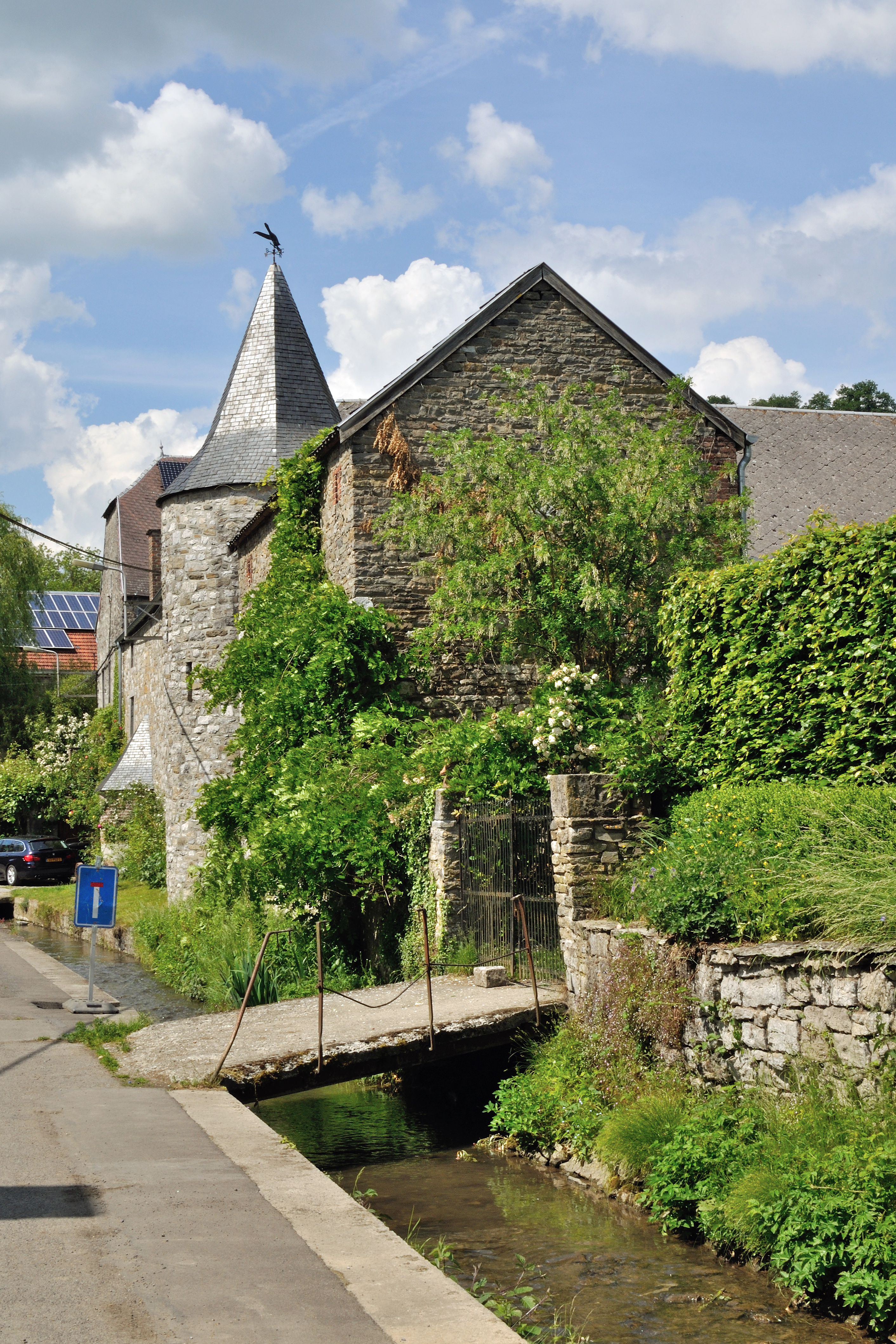 The Bloquay's creek crossing the village of Comblain Fairon.